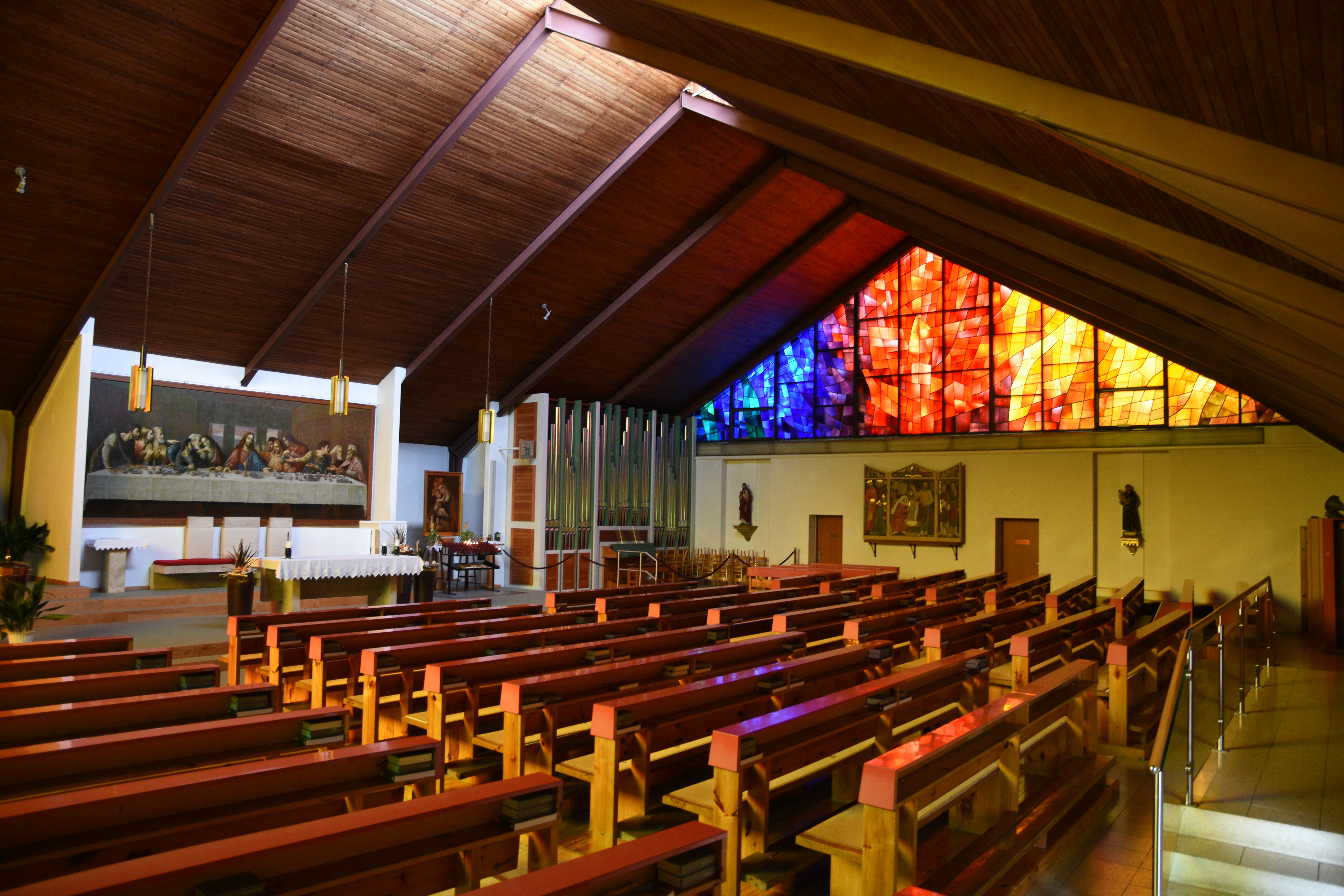 Saint Mary Church (Bad Schönau) - Interior